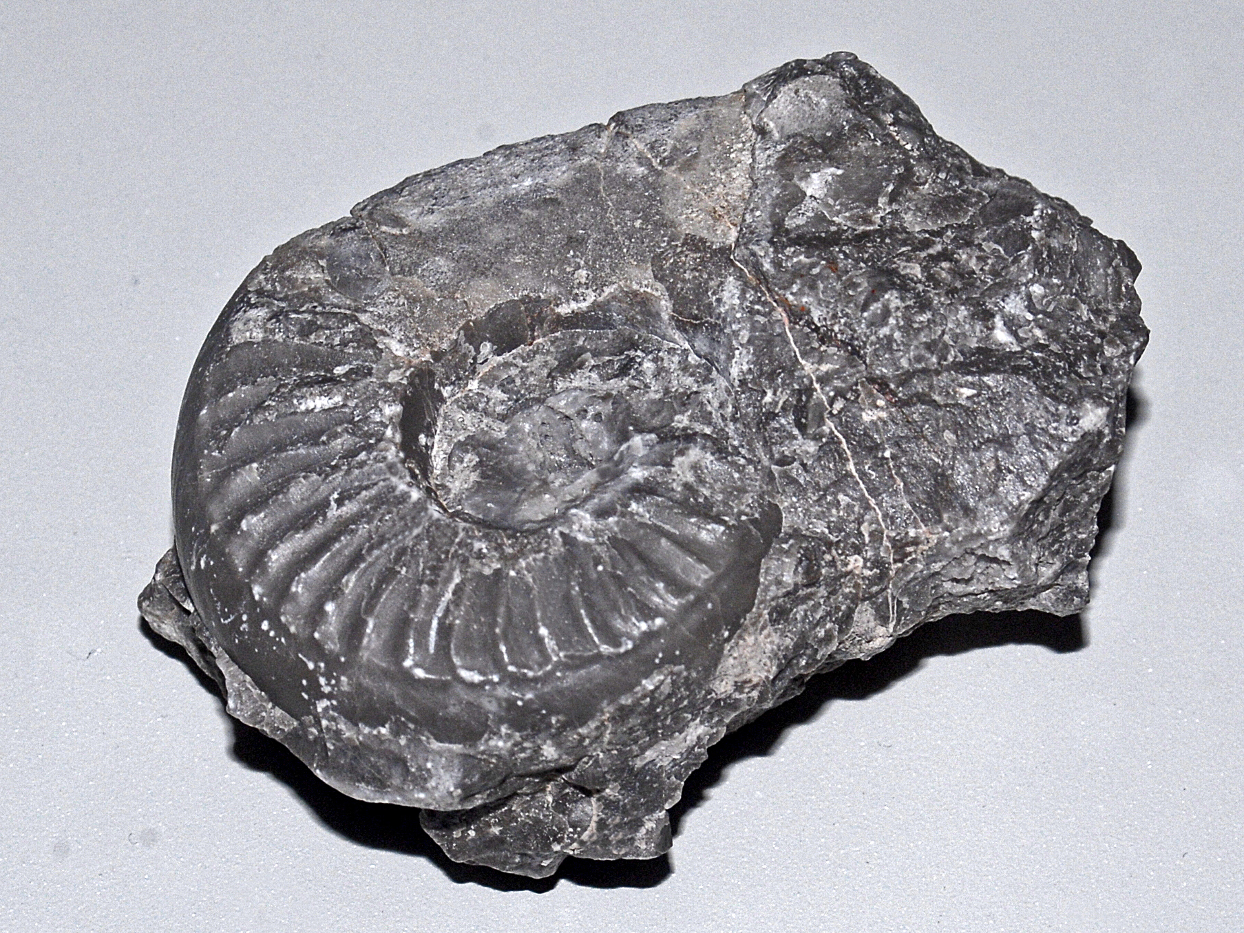 Pleuronautilus mariani from Ladinian of Italy, on display at the Museo Civico di Storia Naturale of Lecco